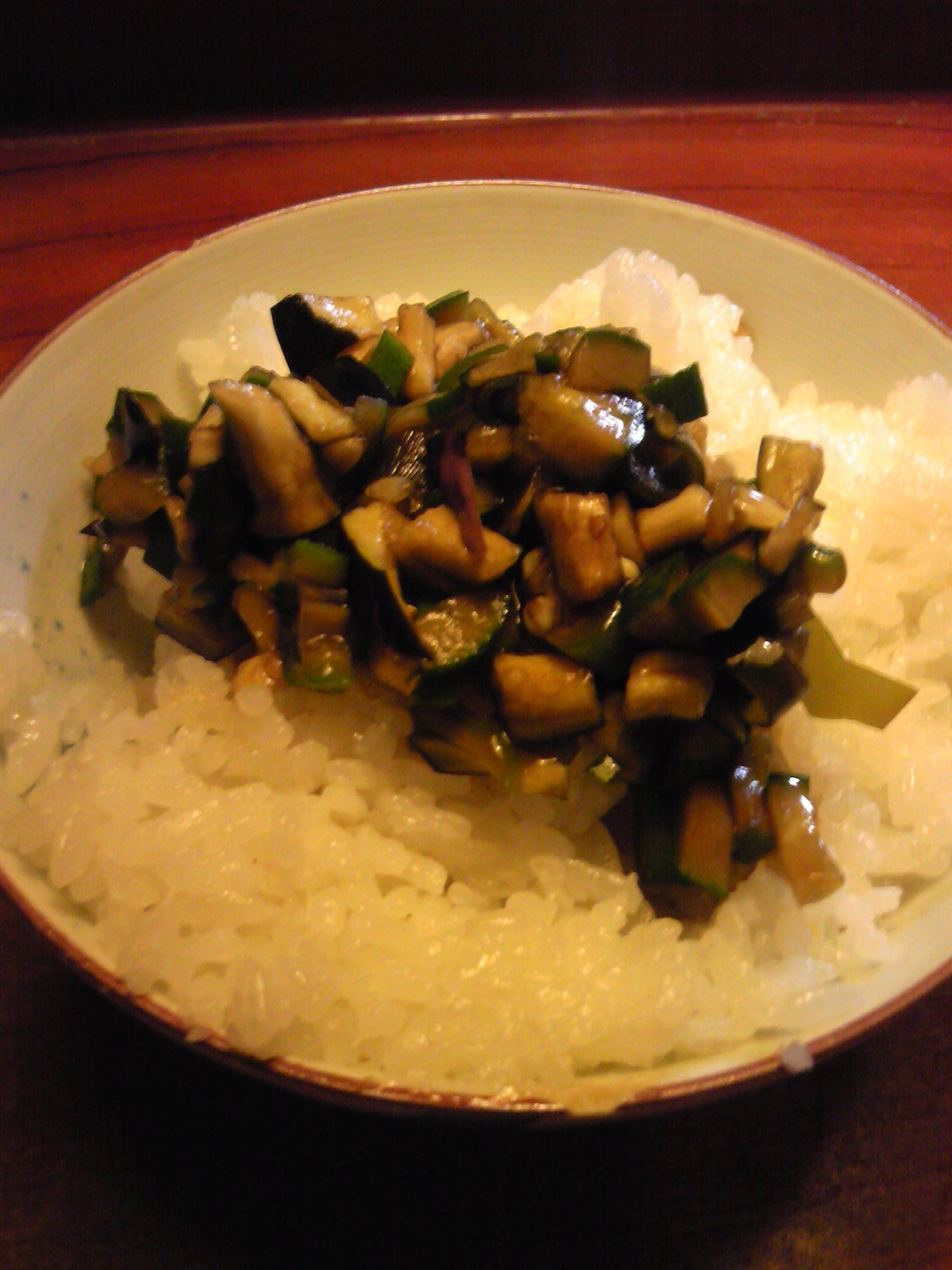 Dashi(Japan Yamagata Prefecture's traditional Vegetable salad)